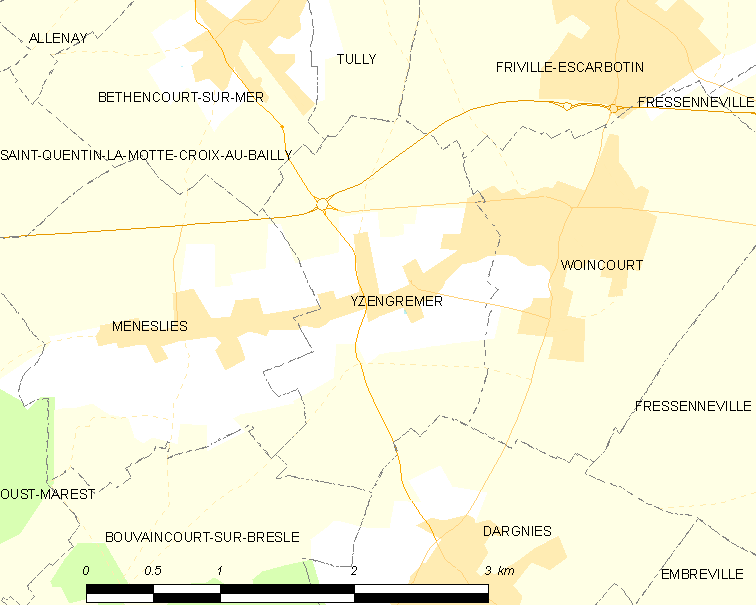 Map of French municipality Yzengremer